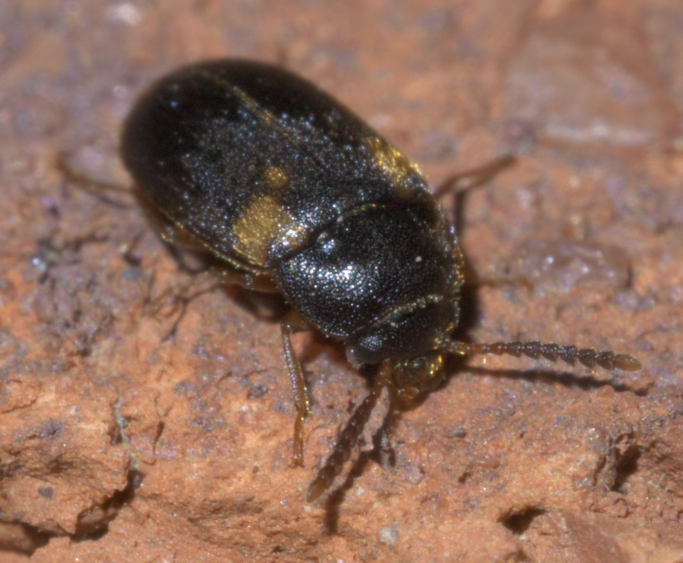 Mycetophagus serrulatus, Family: Hairy Fungus Beetles, ID Confidence: 98